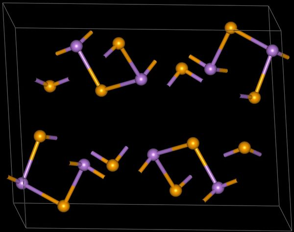 As2Se3 structure. Yellow atoms are Se. Journal = ZEITSCHRIFT FUER KRISTALLOGRAPHIE (1985, volume 173, pages 185-191) Title = The crystal structure of arsenic selenide, As2Se3 Authors = Stergiou A.C., Rentzeperis P.J. Category:arsenic compounds